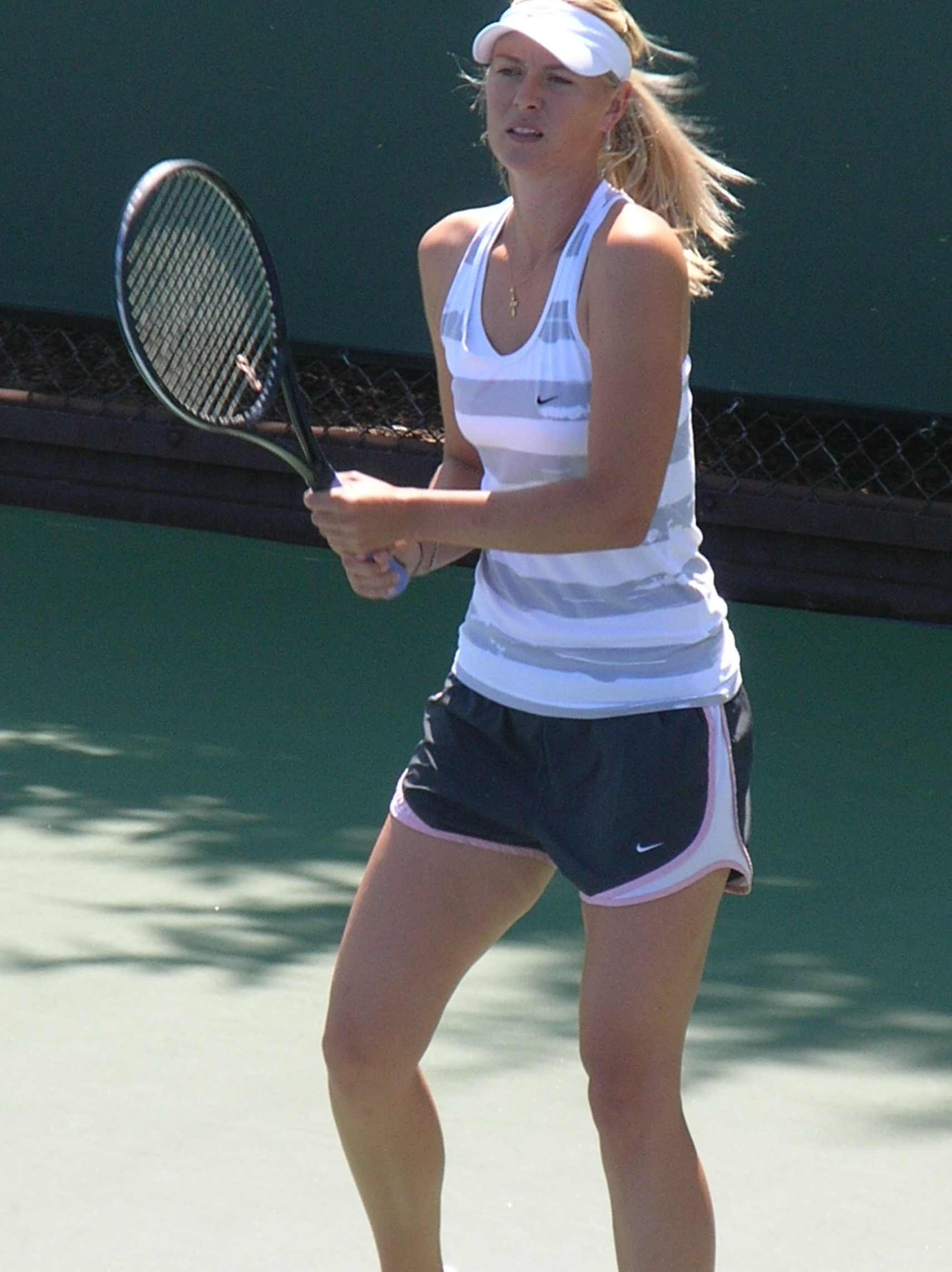 Maria Sharapova practicing at the Bank of the West Classic at Stanford.